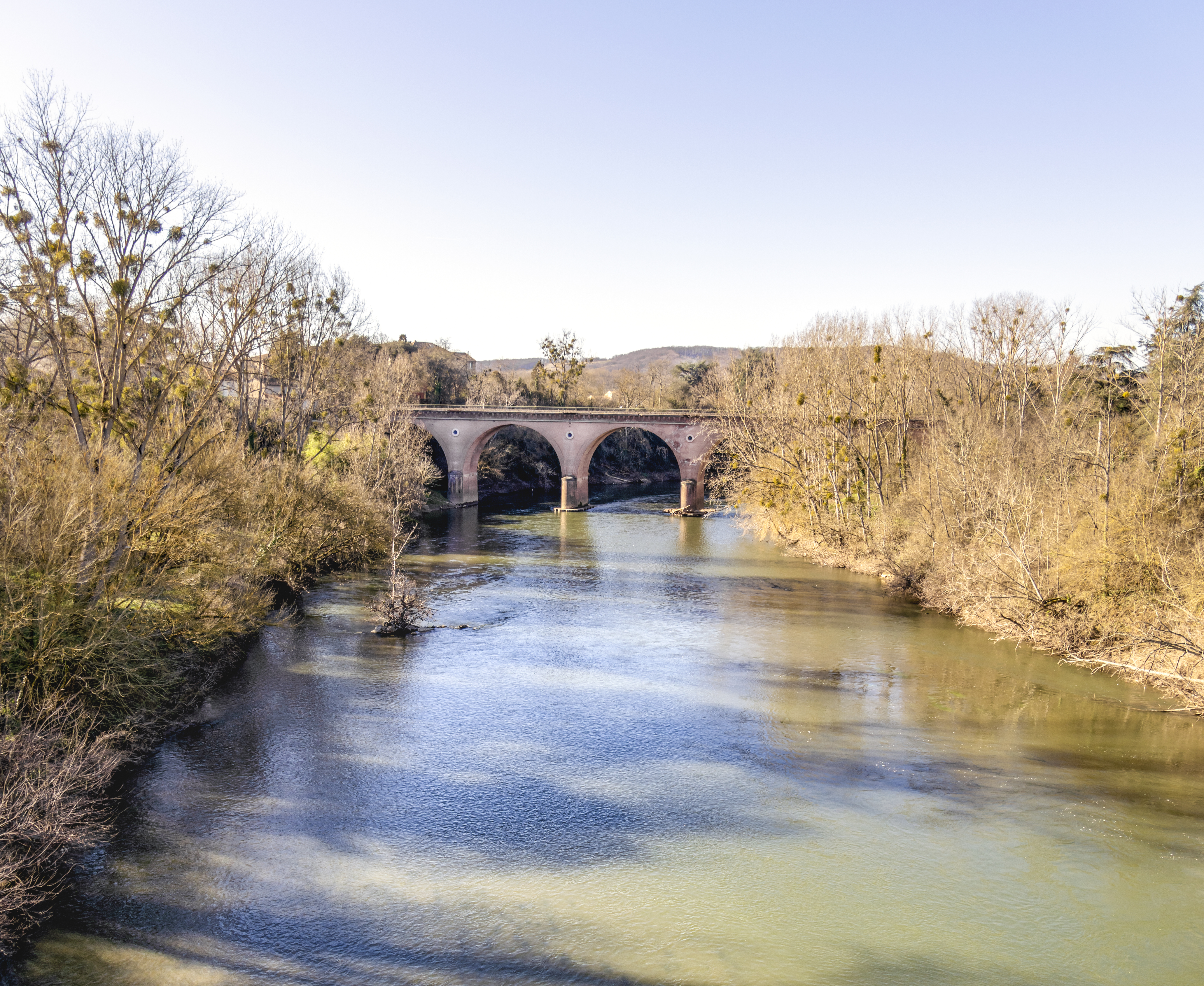 Saint-Sulpice-la-Pointe - The railway bridge over the Agout